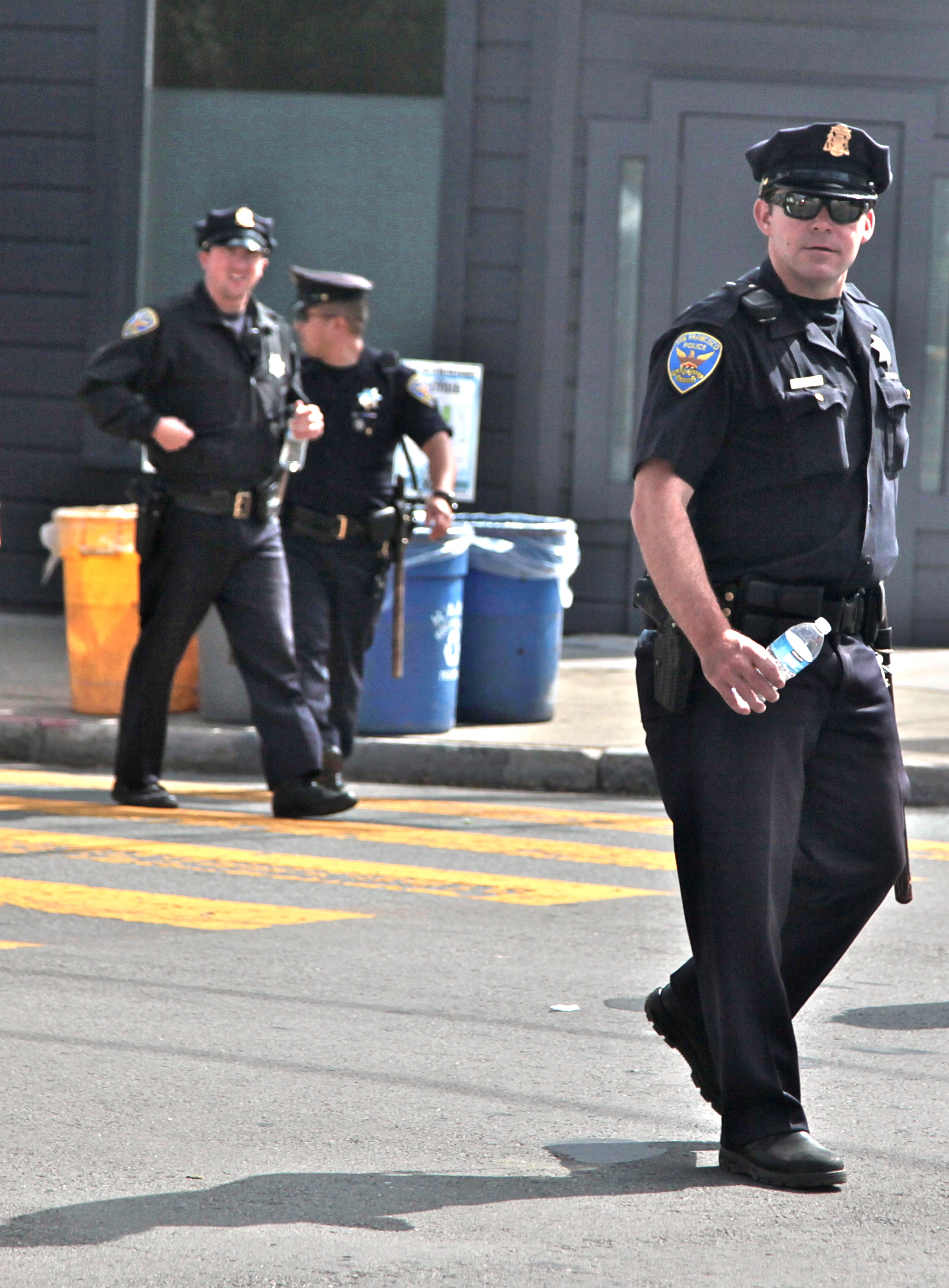 my experiences with observing sf police officers is that they seem like good people with negotiation skills. i've seen them operating under many different circumstances and situations and they've always been admirable. thank you for walking the beat!